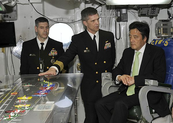 Katsuya Okada, Minister for Foreign Affairs, talked with David Lausman, Commanding Officer of the USS George Washington (CVN-73), in Yokosuka City, Kanagawa Prefecture on April 10, 2010.